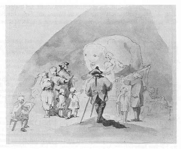 Johann Heinrich Ramberg (1763–1840) Description German painter Date of birth/death22 July 17636 July 1840Location of birth/deathHanoverHanoverWork locationHannoverAuthority control VIAF: 92075766 LCCN: n84044977 GND: 118598031 BnF: cb14486397j ULAN: 500015910 ISNI: 0000 0001 0998 0162 WorldCat WP-Person